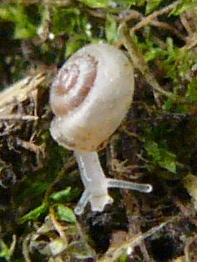 Vallonia pulchella. Locality: Olomouc, Czech Republic. Date: 23 April 2009.